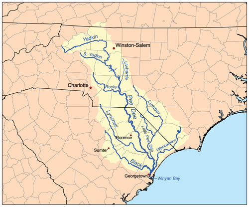 This is a map of the Pee Dee River watershed. I, Karl Musser, created it based on USGS data.